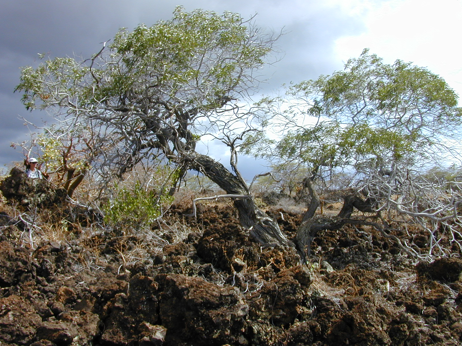 Acacia koaia (habit). Location: Maui, Puu o Kali